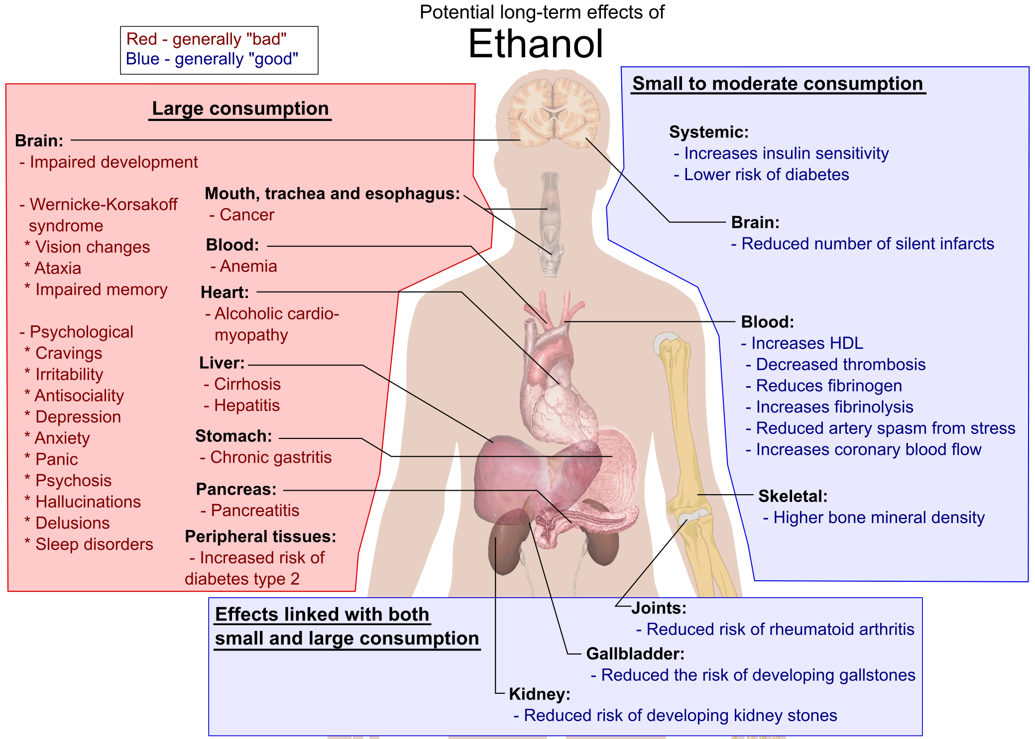 Most significant possible long-term effects of ethanol. Sources are found in main article: Wikipedia:Long-term effects of alcohol. To discuss image, please see Template_talk:Häggström diagrams